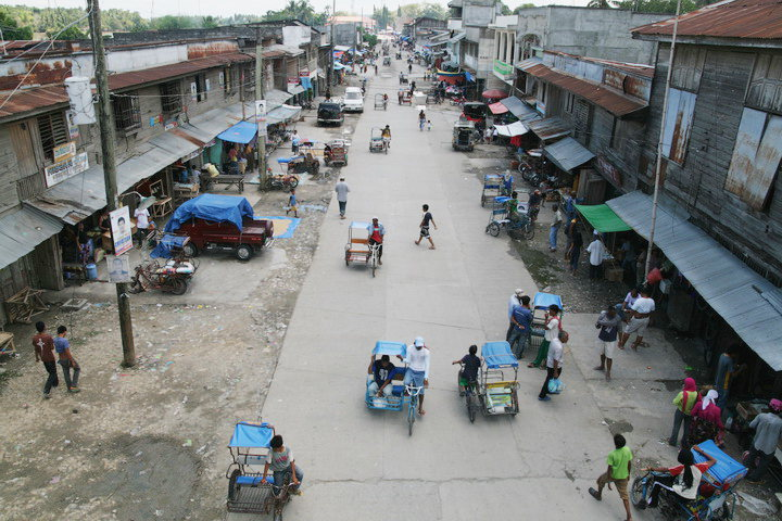 Datu Piang, Maguindanao